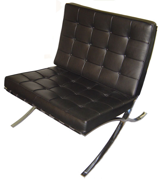 Barcelona Chair